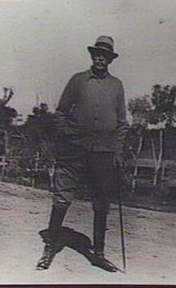 Lieutenant General Sir George Tom Molesworth Bridges KCB KCMG DSO (20 August 1871 – 26 November 1939). This image shows a photograph of Sir Tom Bridges, taken in 1927.